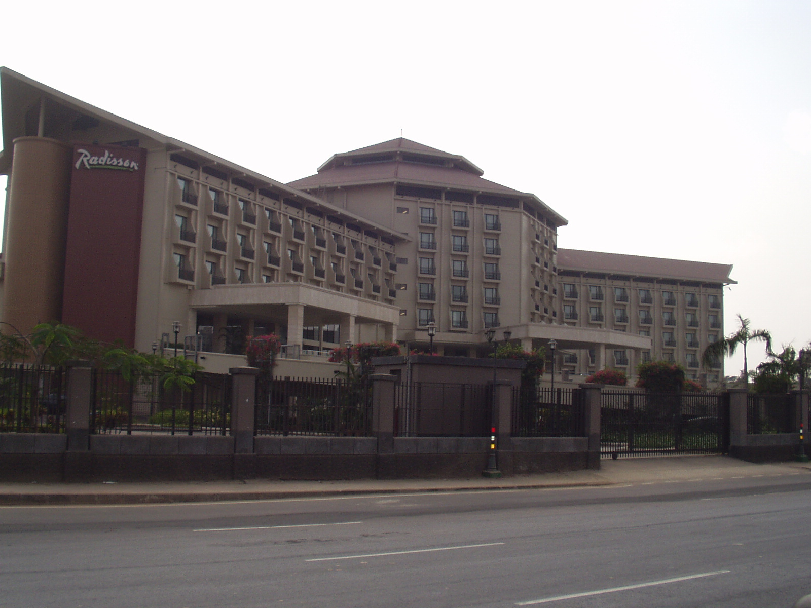 Hotel Raddison at Airport road. -mamun2a